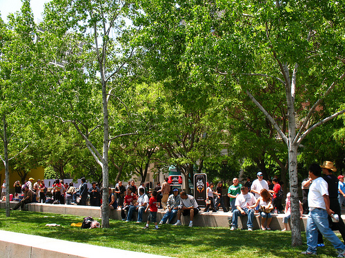 Pershing Square in Downtown Los Angeles, during the park's Summer Concert Series.